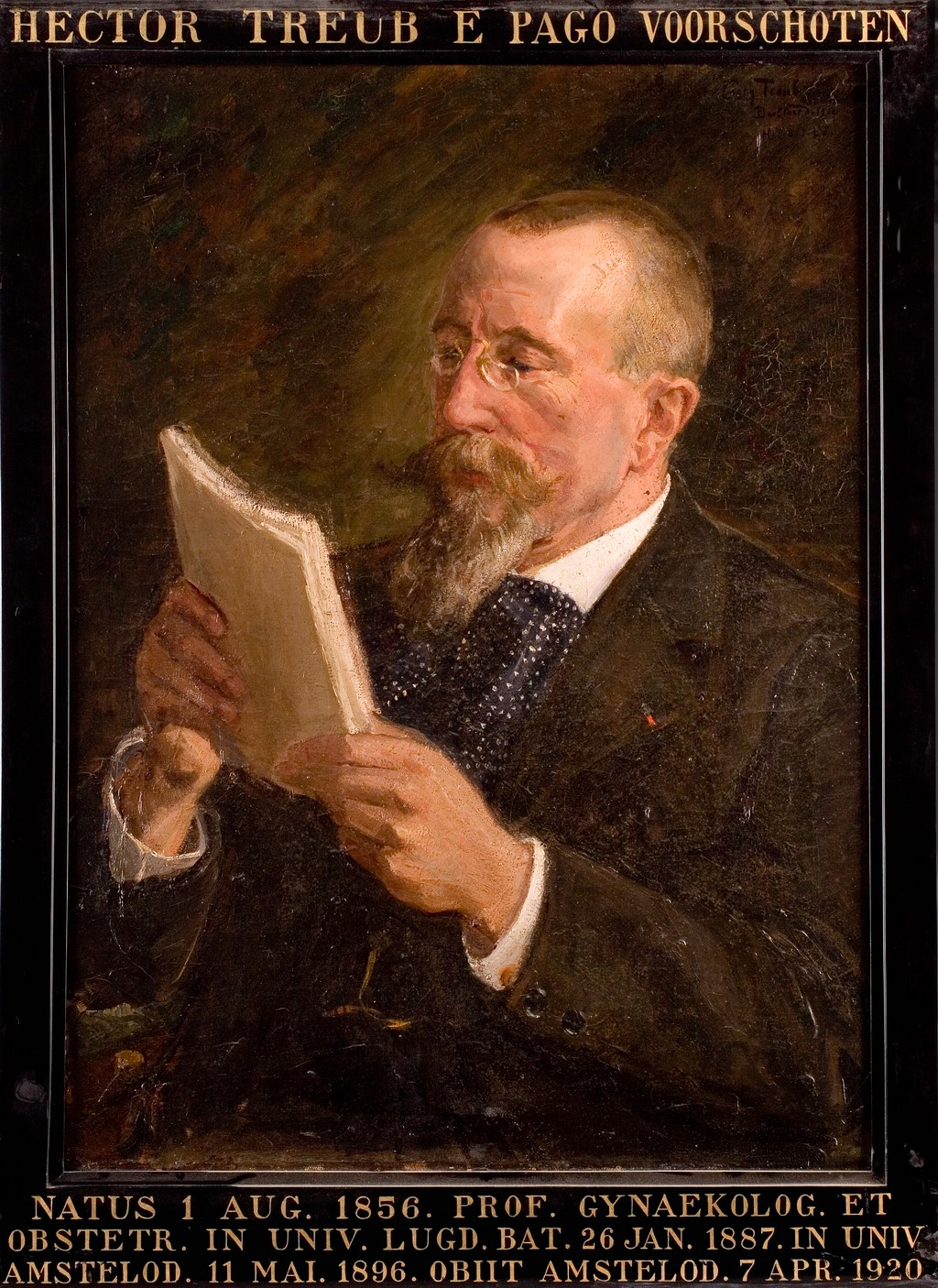 Dutch professor Hector Treub (1856-1920). Painted by Corrie Boellaard in 1912. Collection Icones Leidenses 321